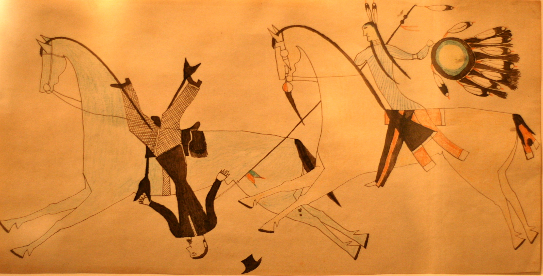 Possibly Cheyenne, Native American. Ledger Book Drawing, ca. 1890. Ink, crayon, woven paper, 6 7/8 x 13 3/4 in. Brooklyn Museum, Gift of The Roebling Society, 1992.27.2.